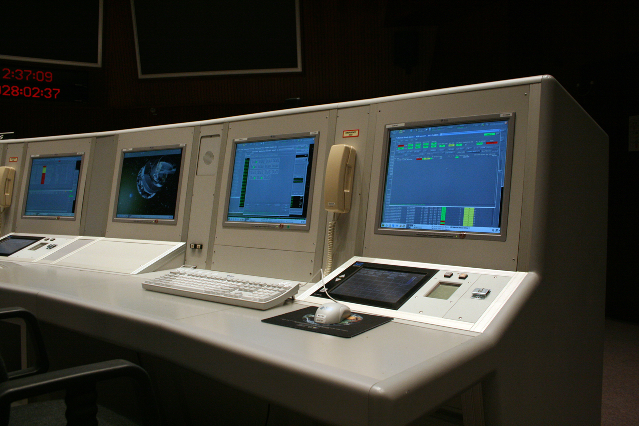 European Space Agency's ESOC main control room in Darmstadt, Germany. Detail.